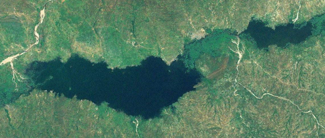 Lake Lere left and Lake Trene right